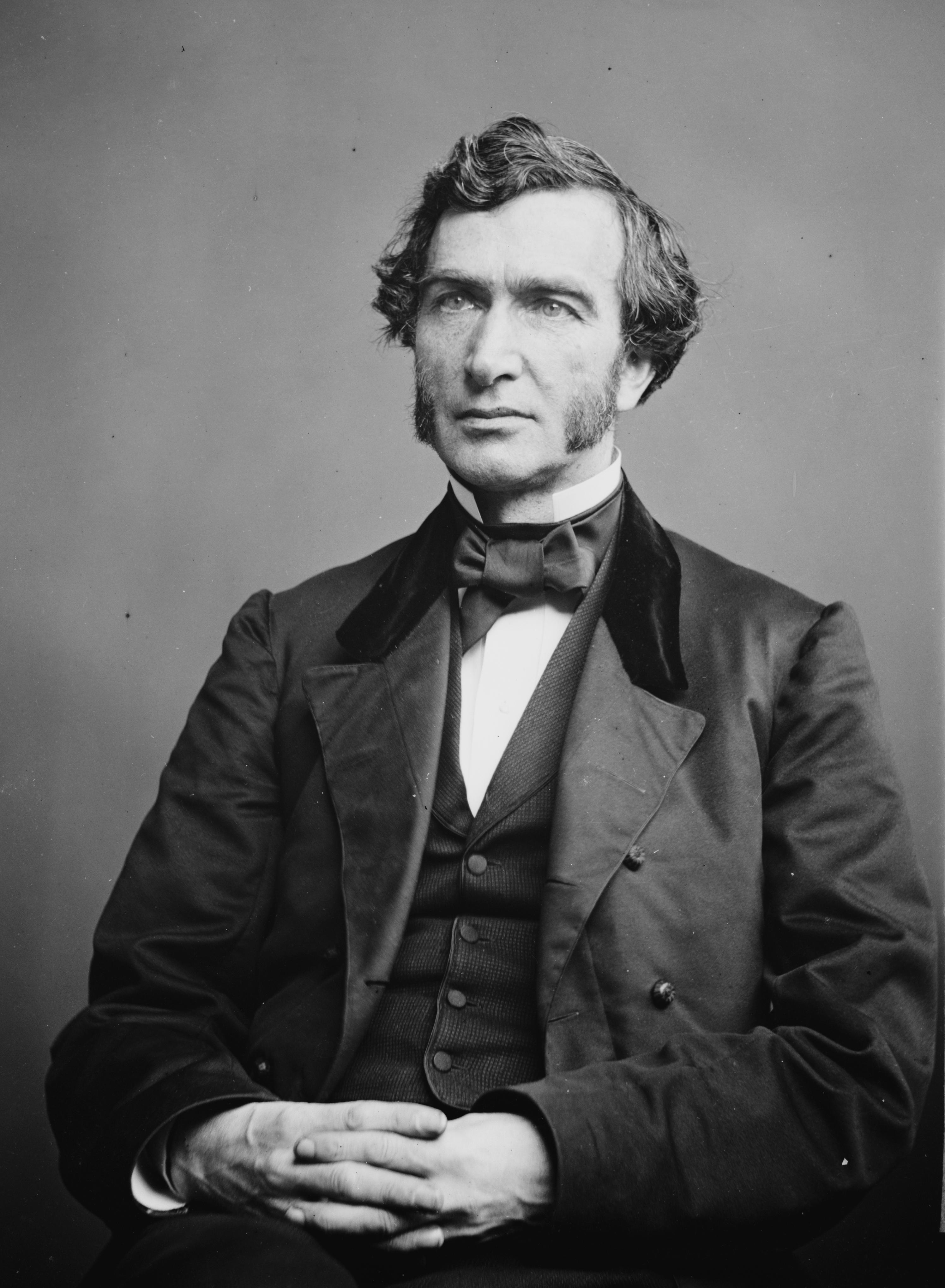 Justin Smith Morrill (April 14, 1810 – December 28, 1898) was a Representative (1855–1867) and a Senator (1867–1898) from Vermont, most widely remembered today for the Morrill Land-Grant Colleges Act that established federal funding for many of the nation's colleges and universities. (This summary was created using Commons SumItUp)Library of Congress description: "Hon. J. S. Morrill"